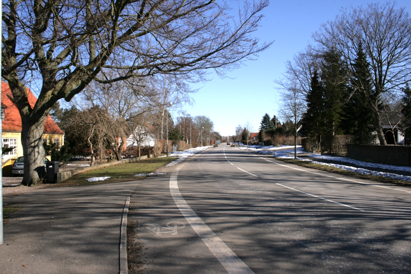 Main street in Viskinge, Sealand, Denmark.